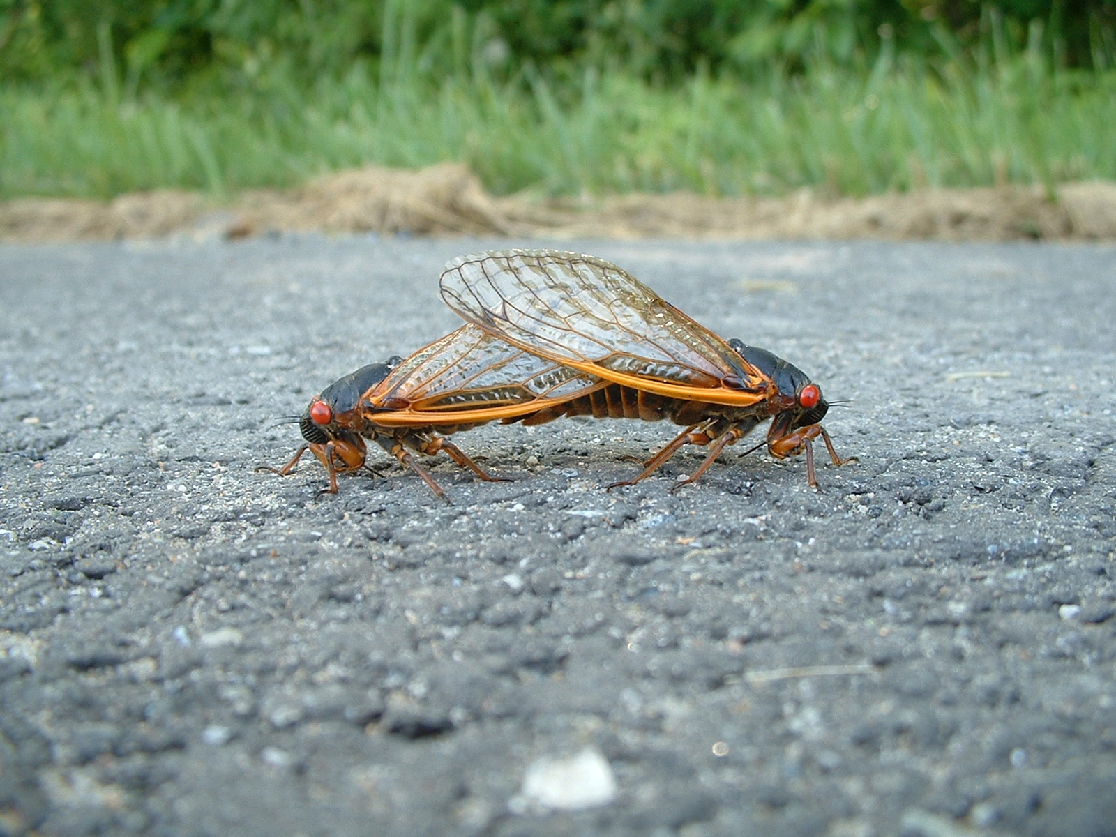 These Brood X Cicadas were mating on a road during the 2004 breeding season.